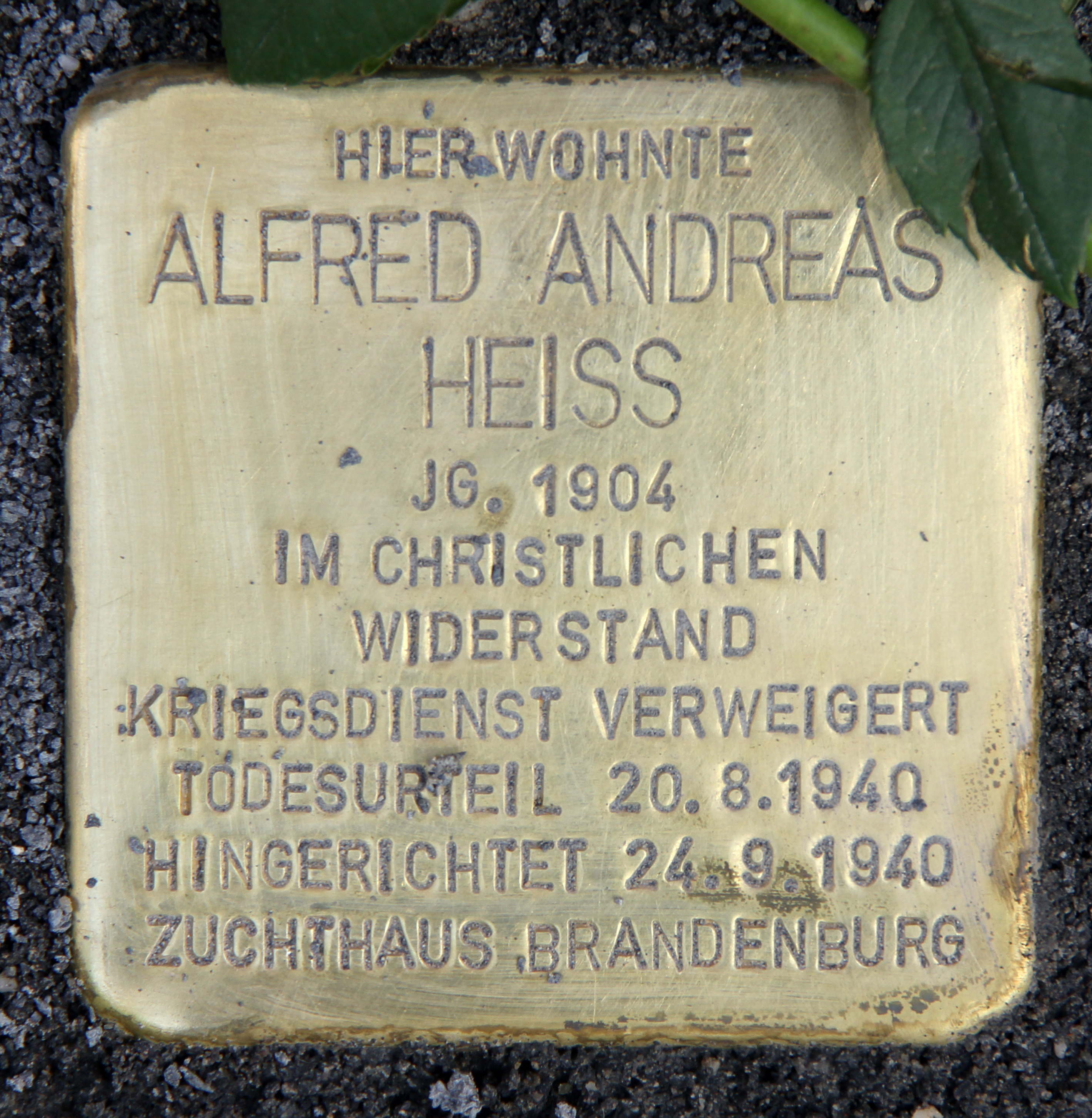 "Stolperstein" (stumbling block), Alfred Andreas Heiß, Georg-Wilhelm-Straße 3, Berlin-Halensee, Germany